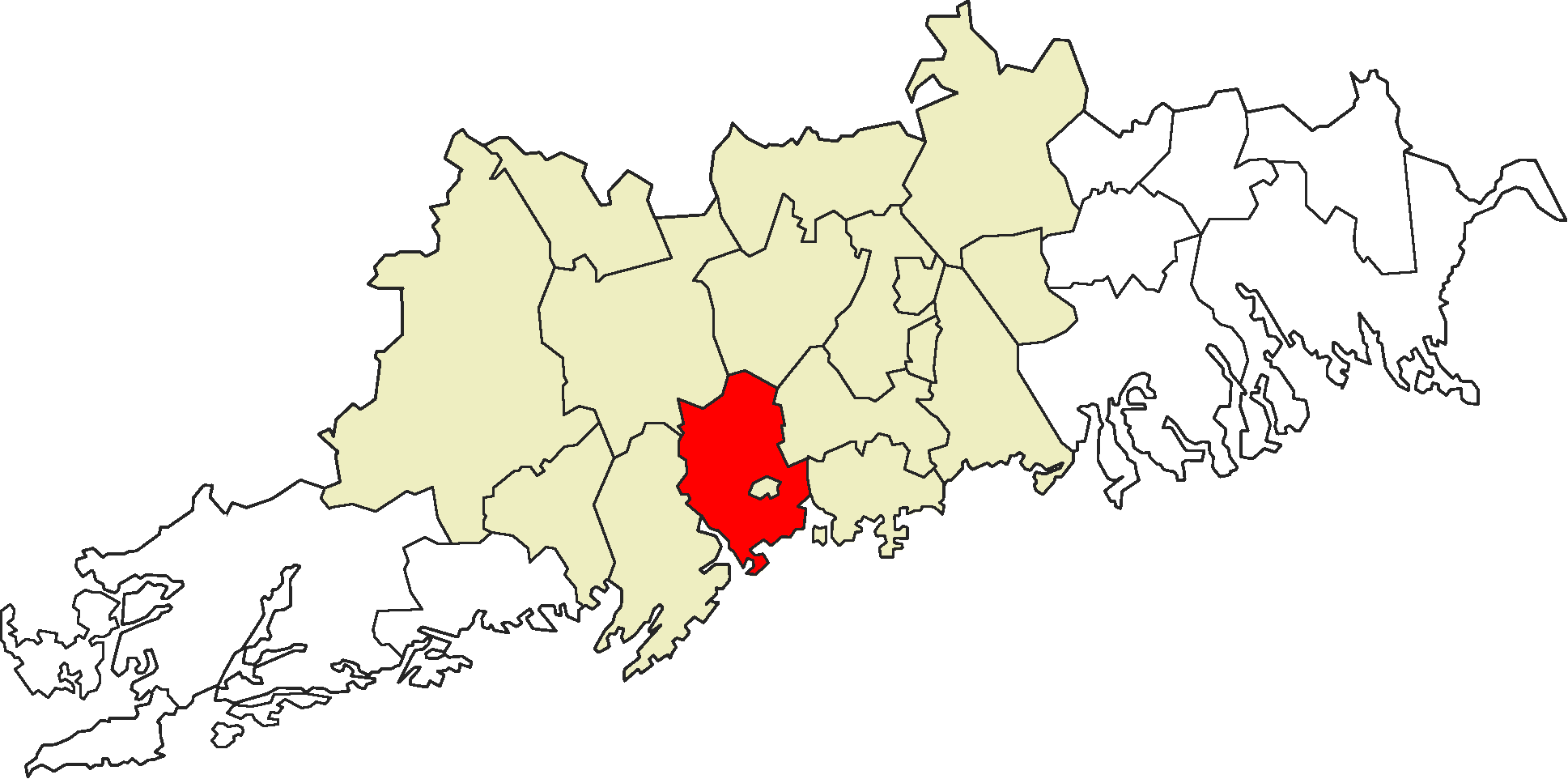 Location of the Finnish municipality of Espoo in Uusimaa and the Helsinki Sub-Region